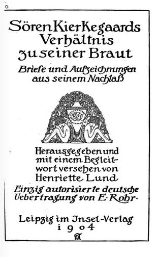 Sören Kierkegaards verhältnis zu seiner Braut. Briefe und aufzeichnungen aus seinem nachlass Sören Kierkegaard's relation to his bride. Letters and notes from his estate published in German 1904